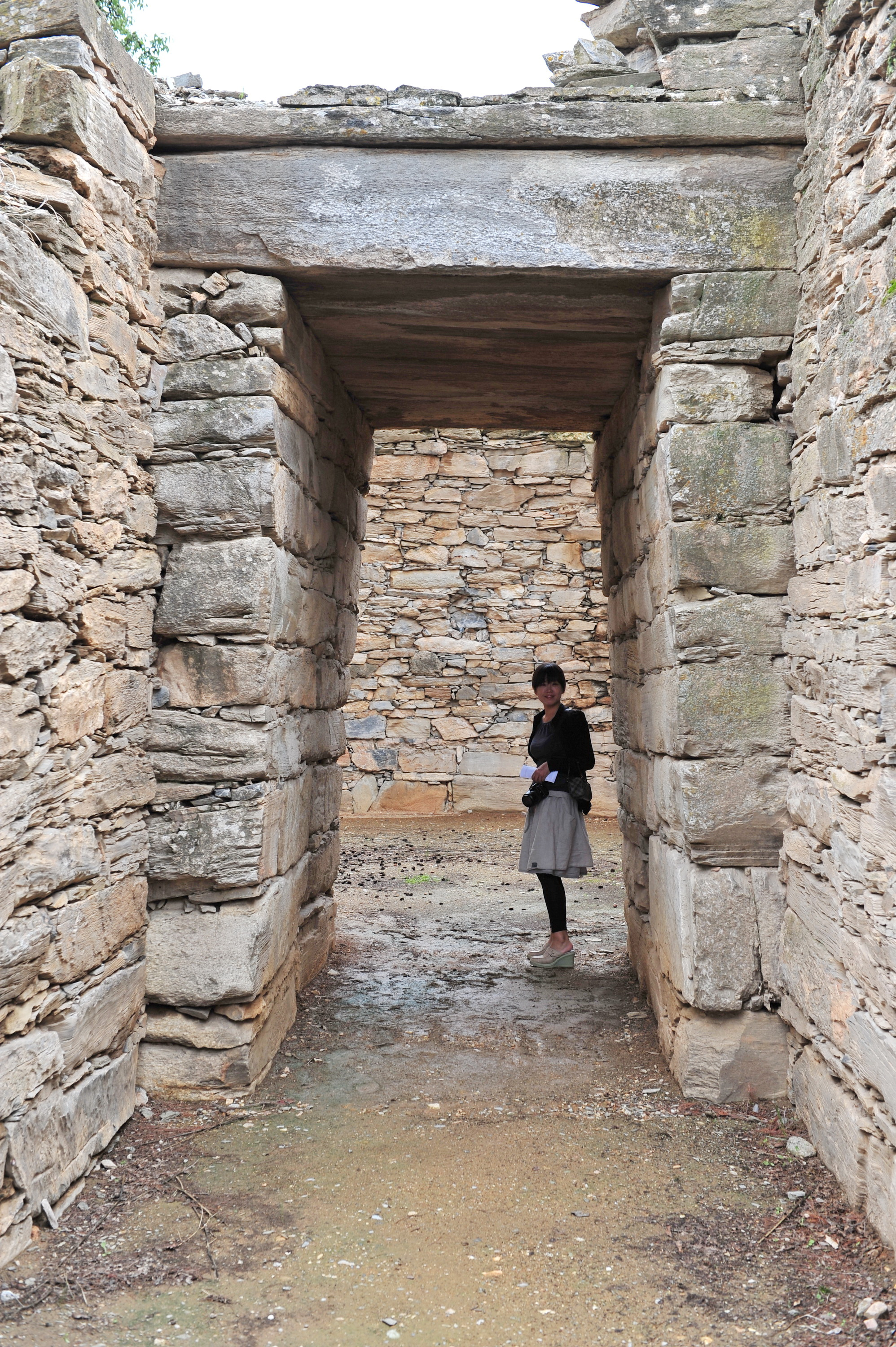 Dimini archeological site Magnesia Greece